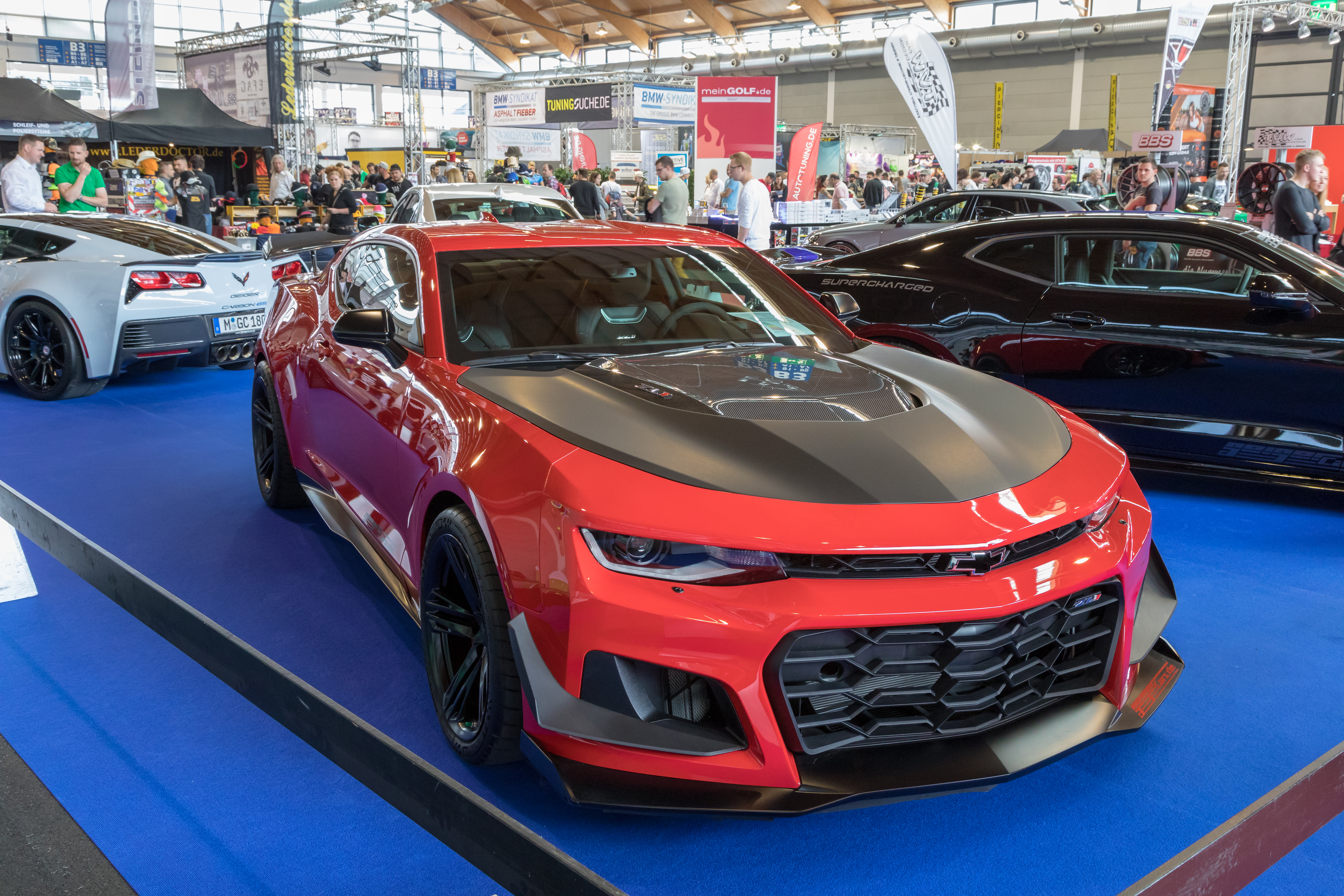 Tuning World Bodensee 2018